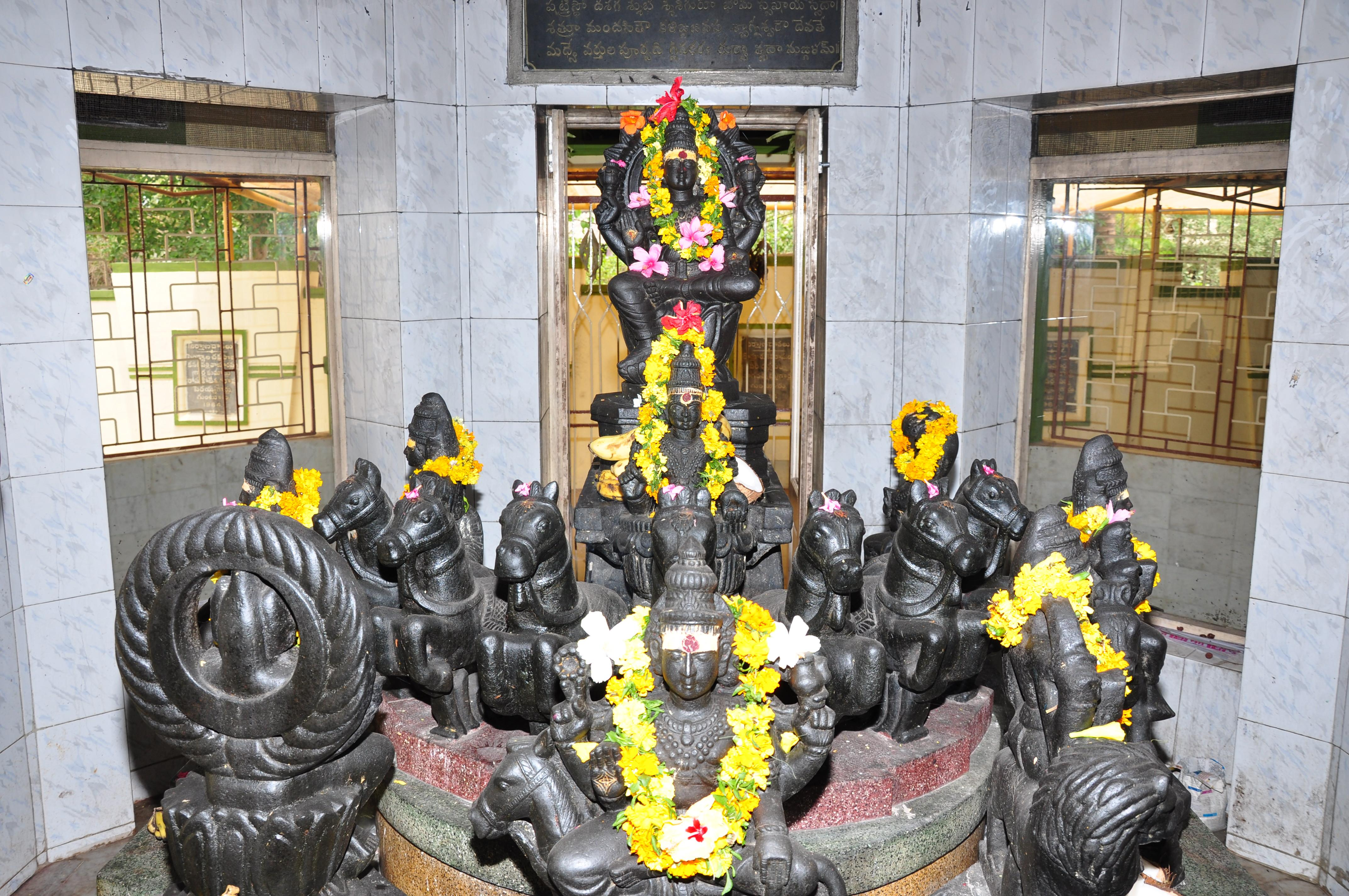 The uniqueness of this temple is all the Navagrahas are accompanied with their respective vahanas.